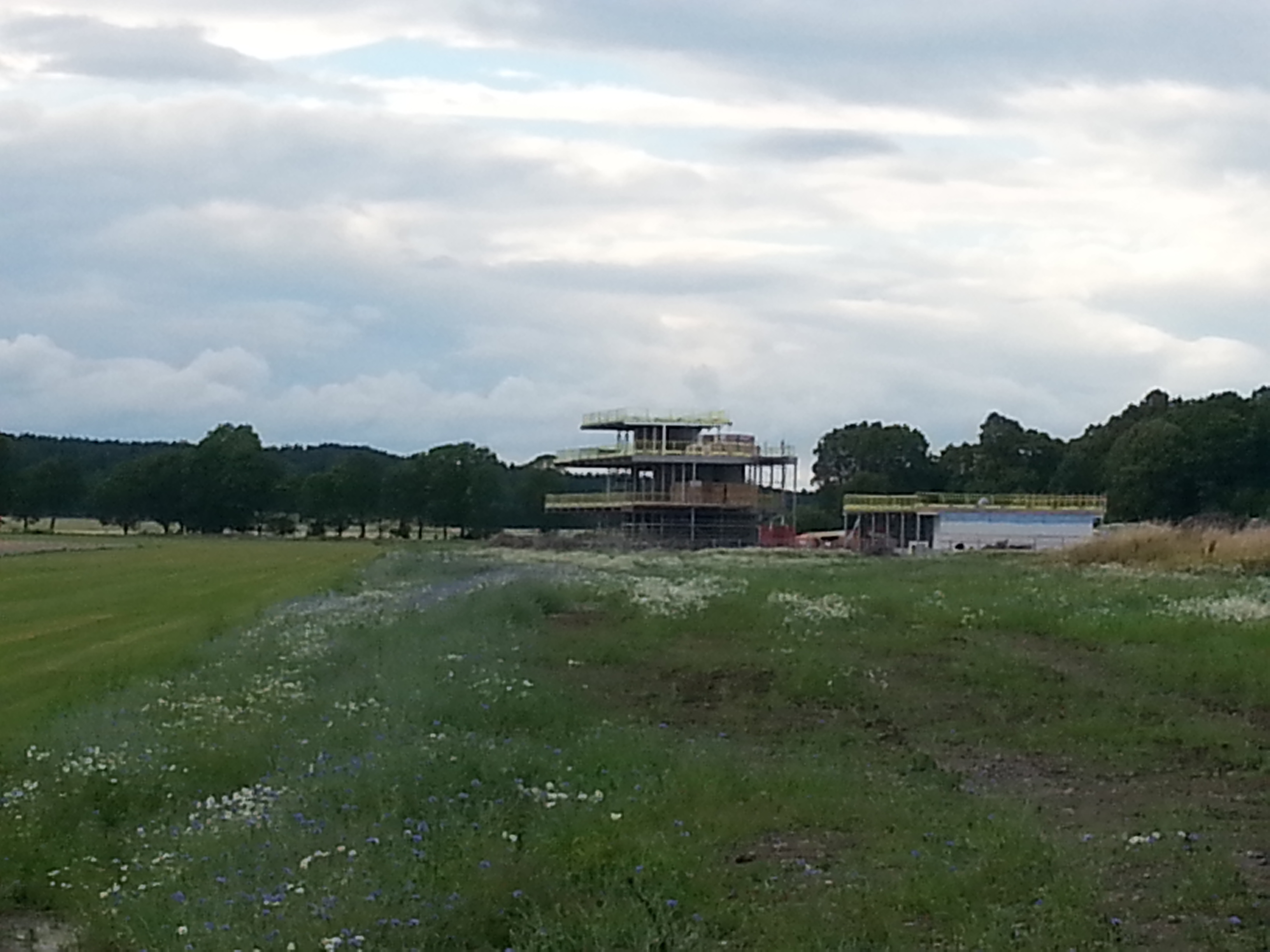 Bro Park- läktaren- juli 2015